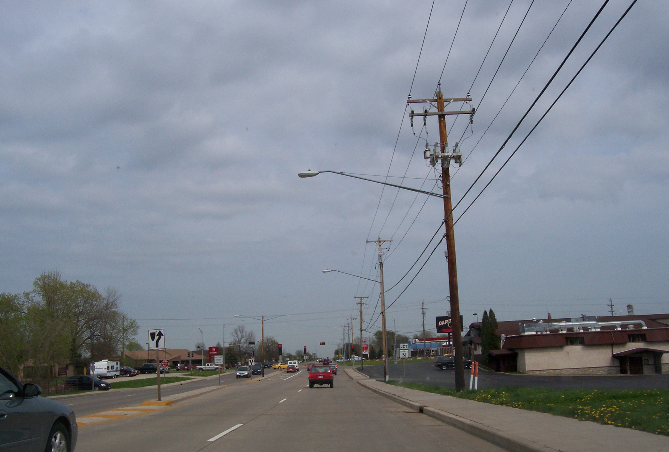 Looking east at downtown Darboy, Wisconsin, USA while travelling on County Highway KK.